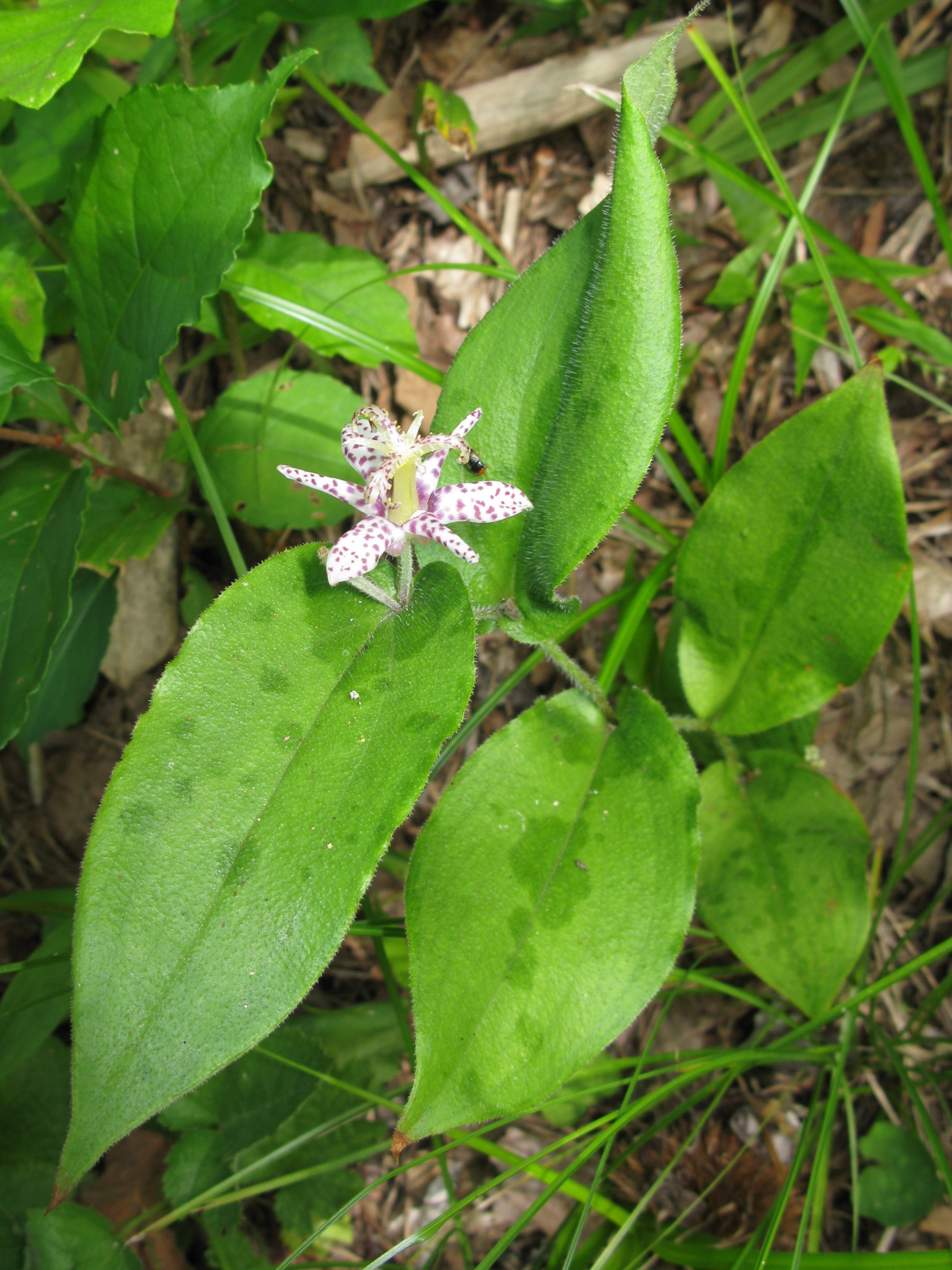 Tricyrtis affinis, Aizu area, Fukushima pref., Japan